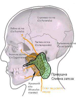 Parotid gland.